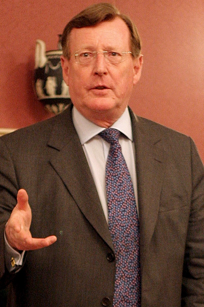 David Trimble, Ulster Unionist politician and Conservative peer